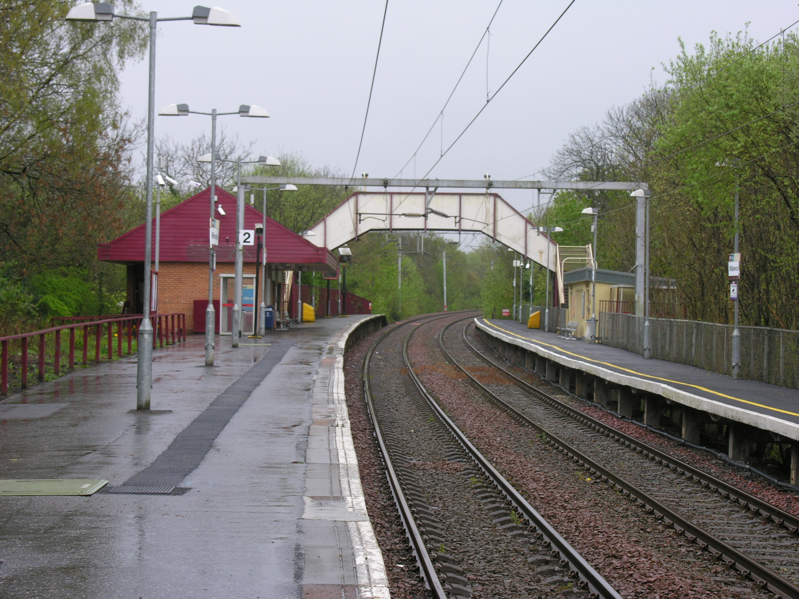 Williamwood train station in 2007